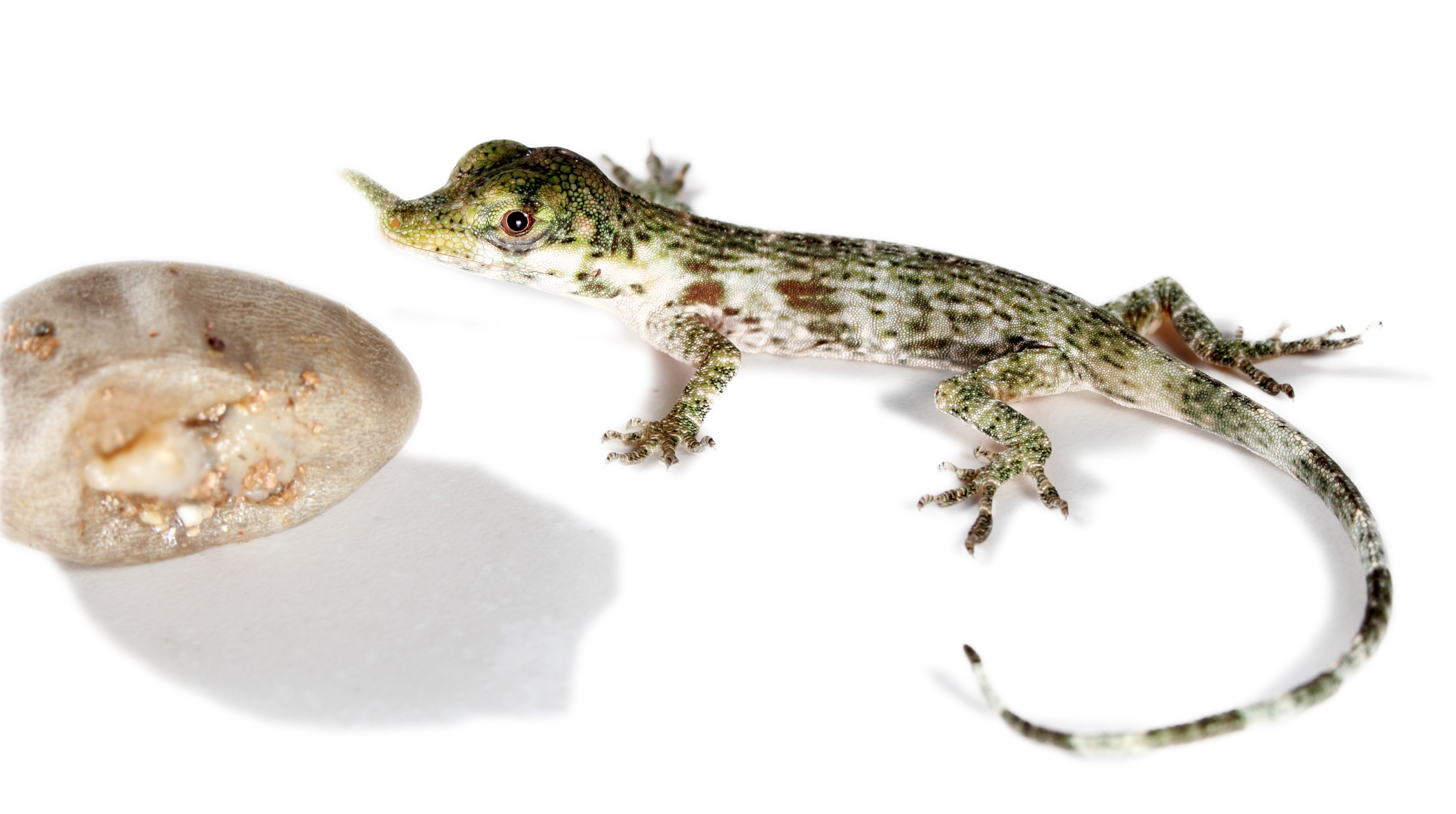 Anolis proboscis, newly born with empty egg on his left.